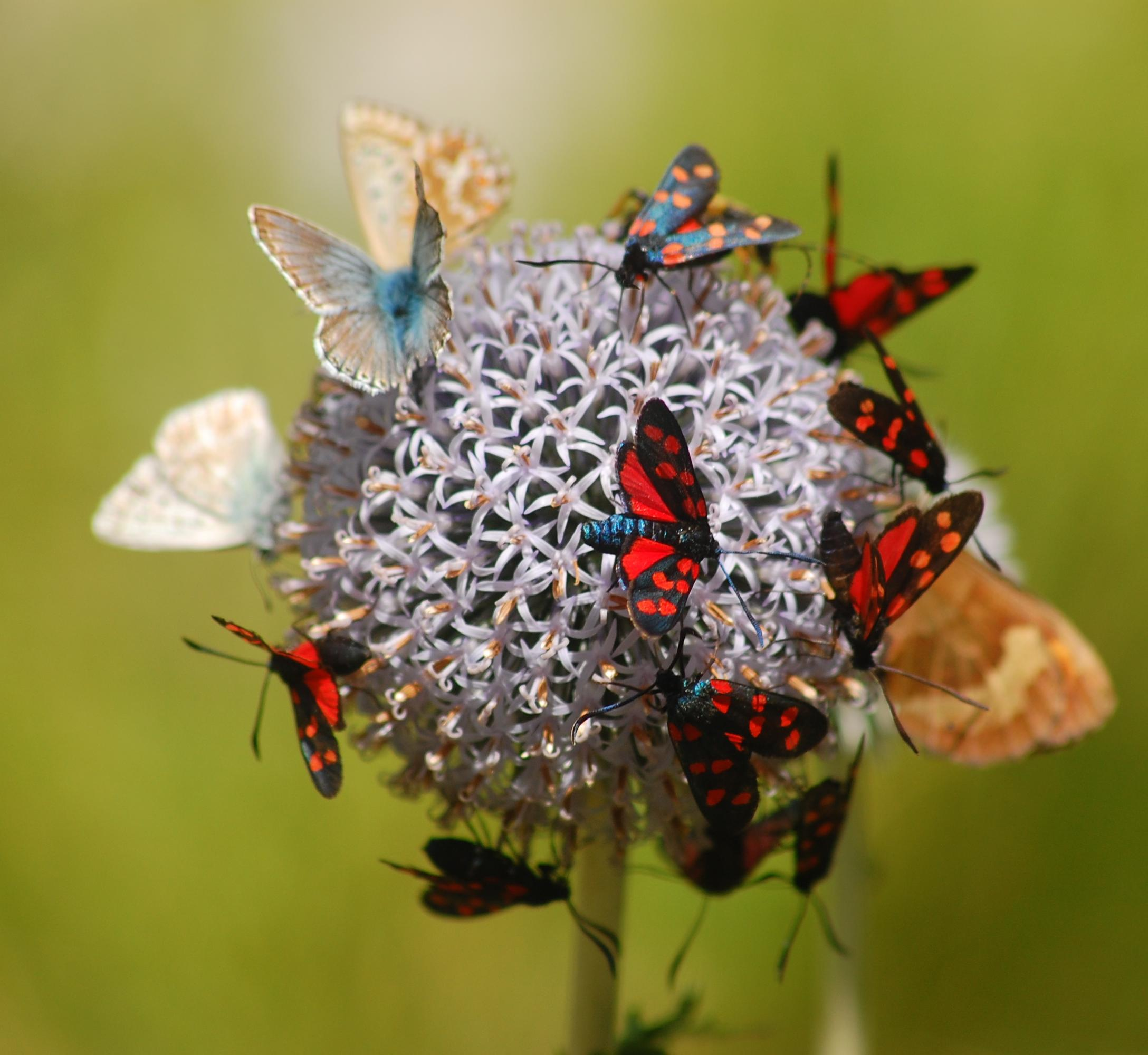 Various butterflies (Polymmmatus coridon and Erebia aethiops) and day-flying moths (Zygaena transalpina) on a flower of Echinops ritro subsp. ruthenicus, in the Alpine Botanical Garden, Trenta, Slovenia